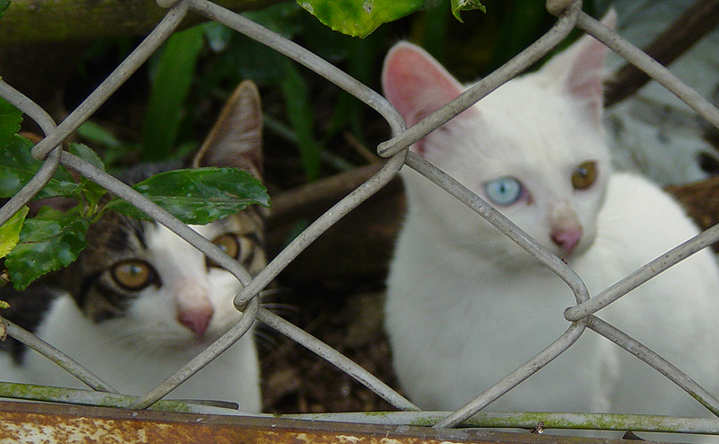 Two Japanese cats, one with normal, matching eye colour (homochromia), the other with differeing eye colour (heterochromia). Picture taken in Chiba, Japan, 2002.